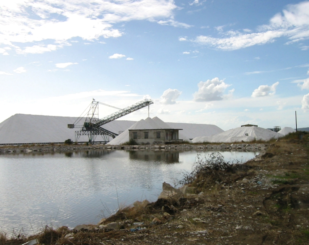 Salt mountains at the Kalas saline near Messolongi in Greece.